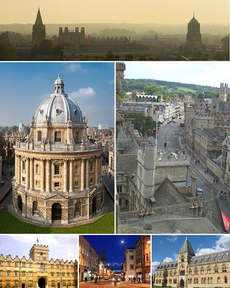 The purpose of this picture is for people to get an at-glance look at some of the key landmarks of Oxford. From top left to bottom right: Oxford Skyline Panorama from St Mary's Church Radcliffe Camera High Street from Above Looking East University College Oxford High Street in Oxford by Night Natural History Museum and Pitt River Museum